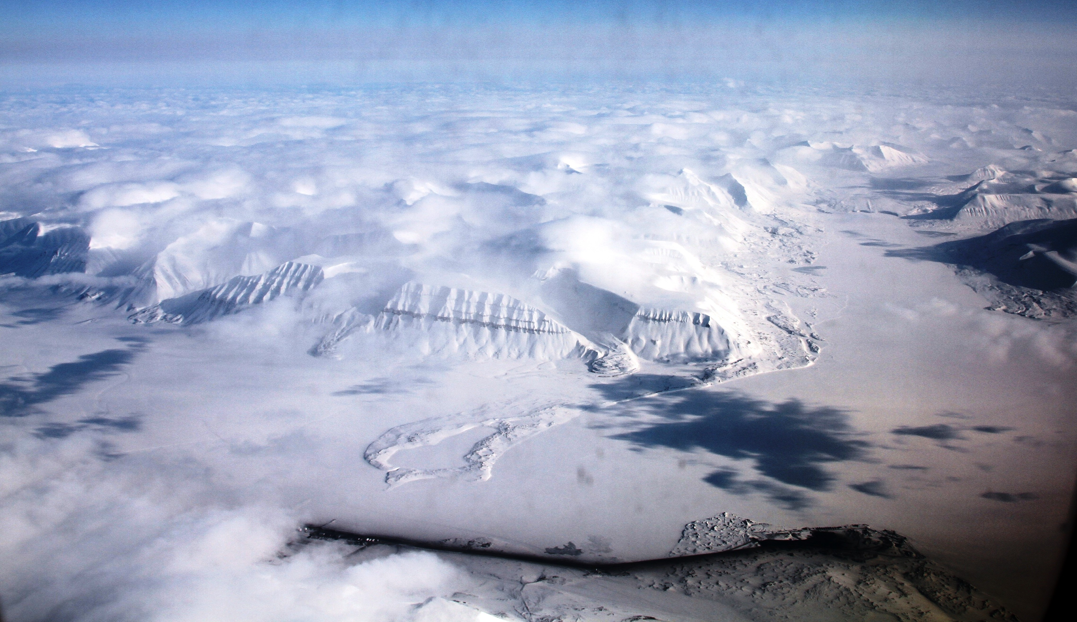 Aerial photo of Braganzavaagen bay and Sveagruva, Spitsbergen (Norway). April.